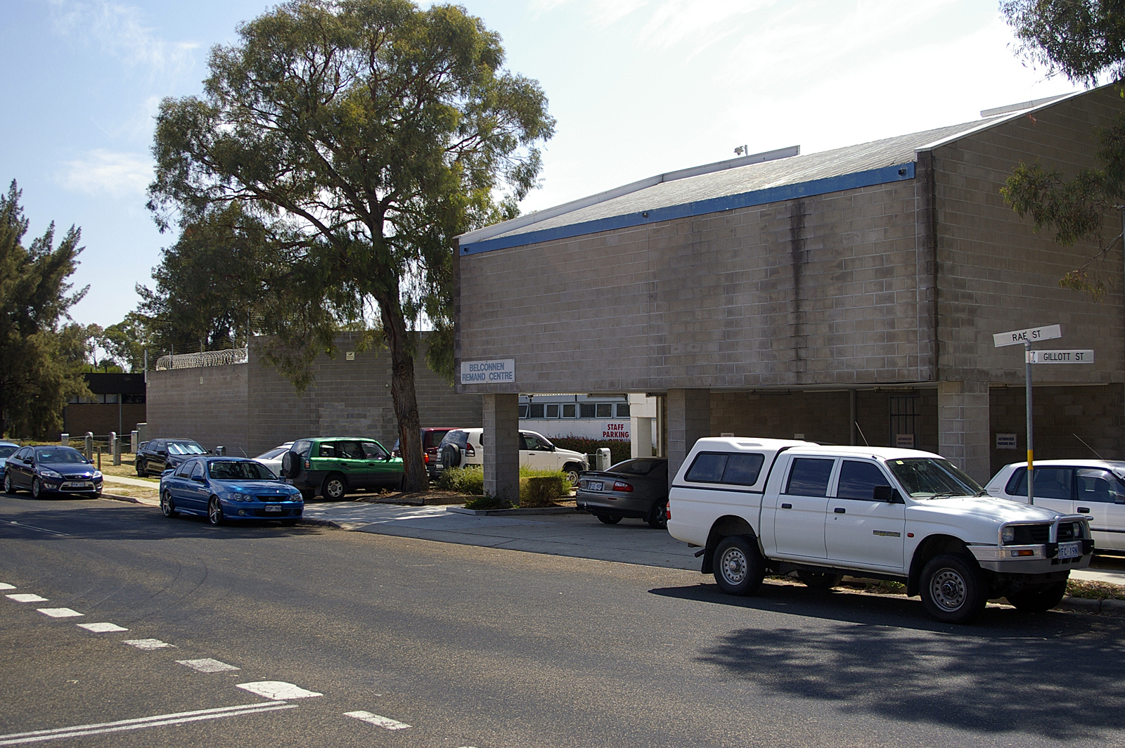 Belconnen Remand Centre located in the Canberra suburb of Belconnen, Australian Capital Territory.